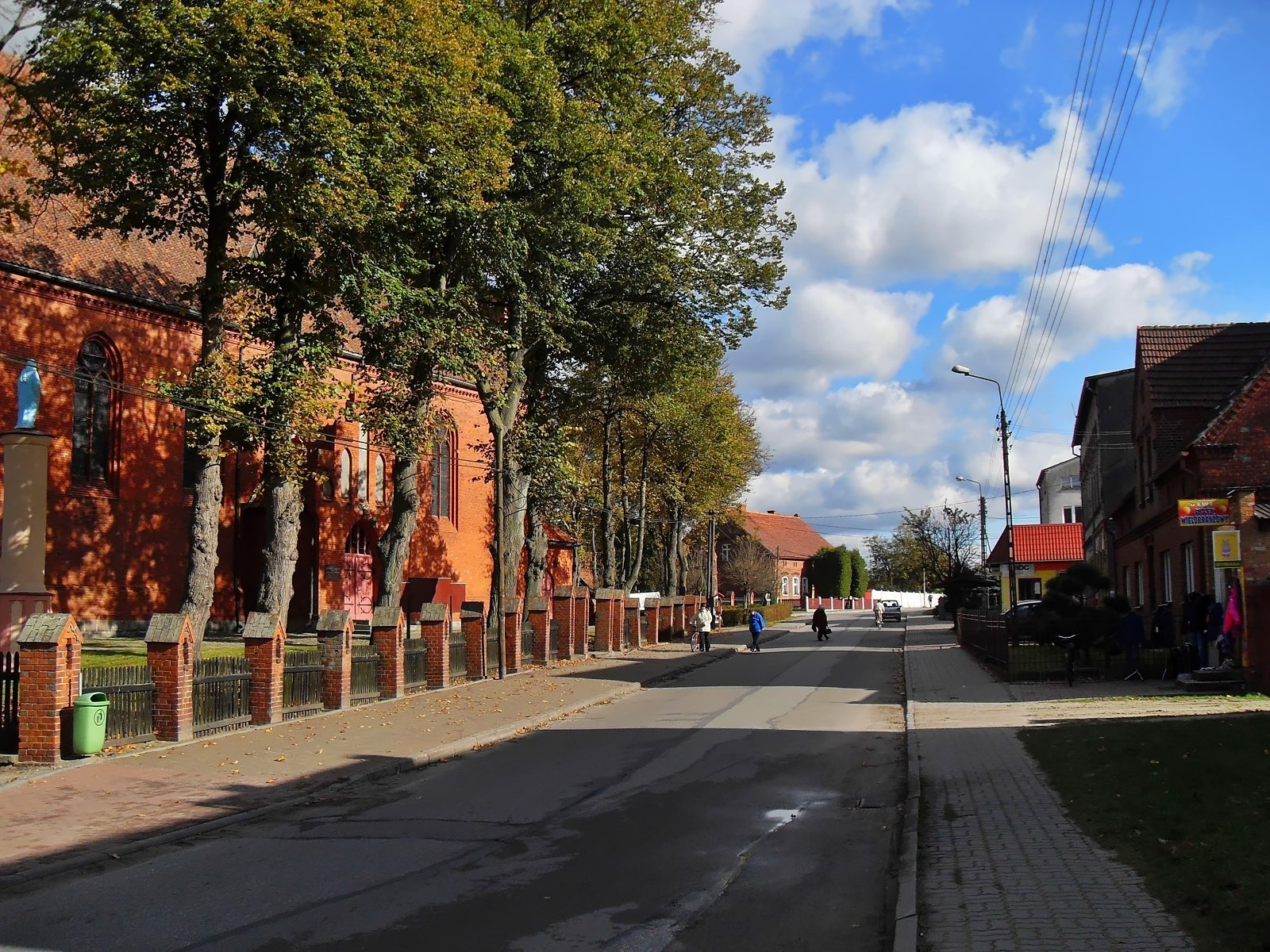 Łąg, Długa Street at the height of the church